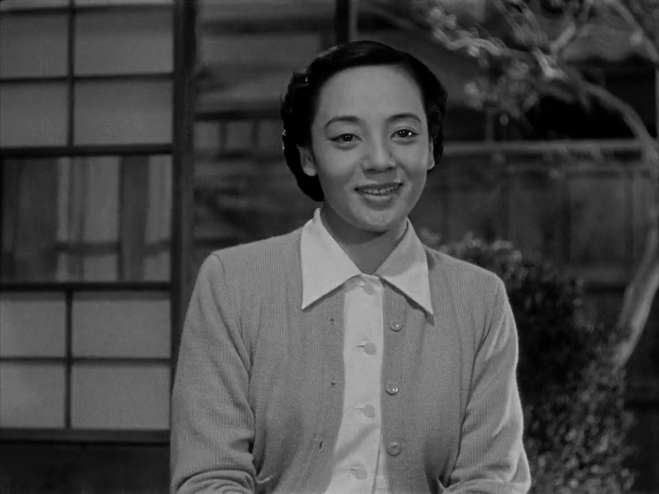 Kuniko Miyake in Bakushū (麦秋) directed by Yasujirō Ozu - 1951